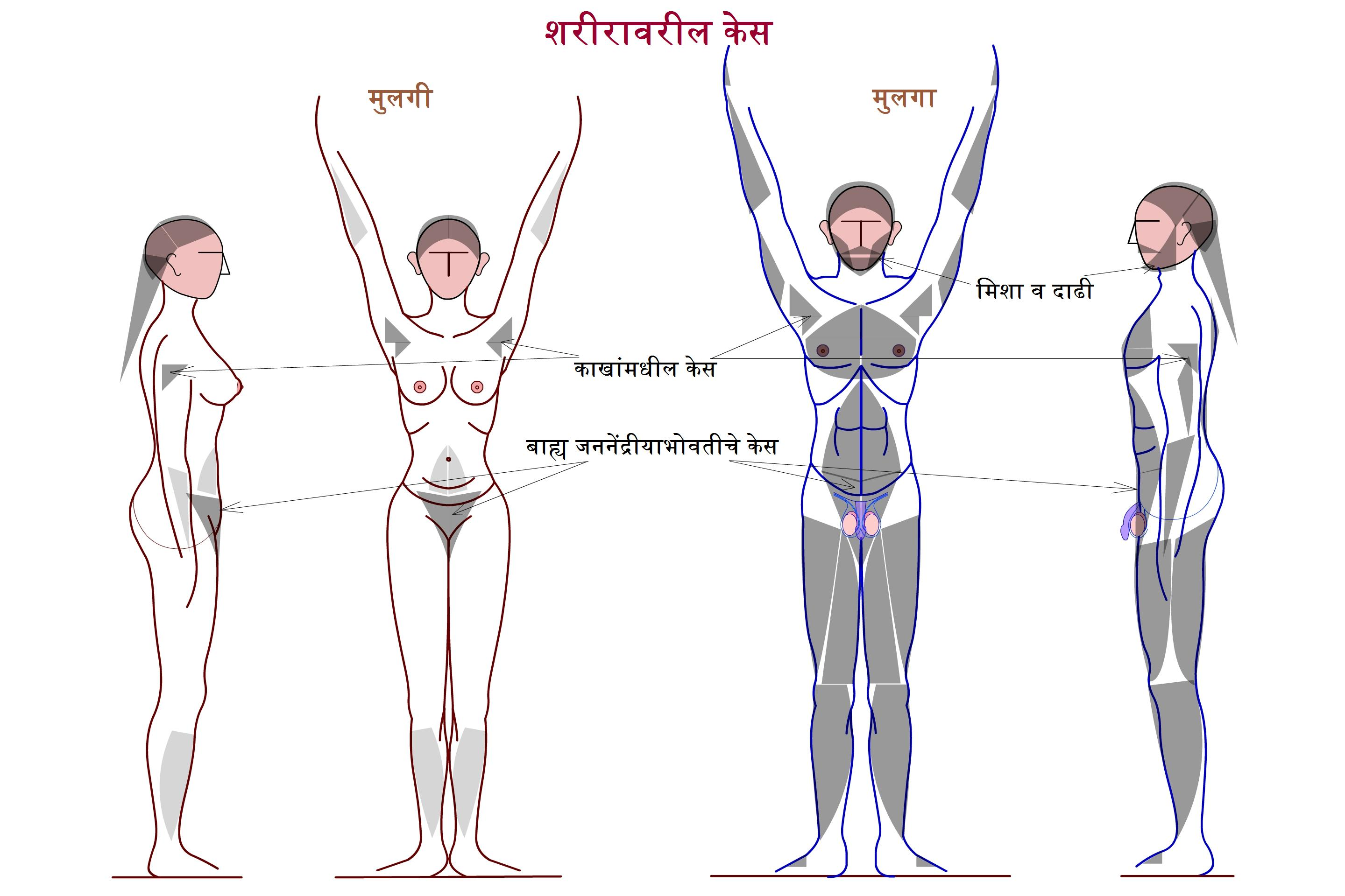 This Figure shows common places, distribution and Male-Female differences of Pubertal Hair Growth. It is attempted to show all possible places but there are many individual differences in places and amount of hair-growth.